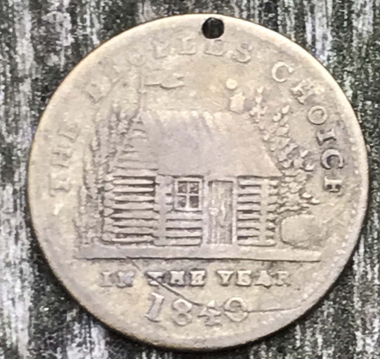 William Henry Harrison token from presidential campaign of 1840